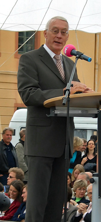 Dr. Eberhard Schulte-Wissermann, Mayor of Koblenz 1994—2010